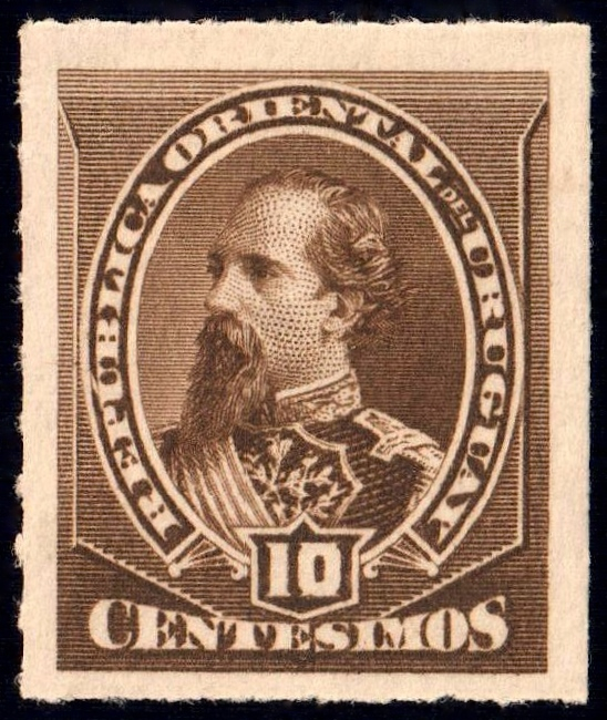 Uruguay stamp of 1884-88, mint. Catalogue: Sc. 66